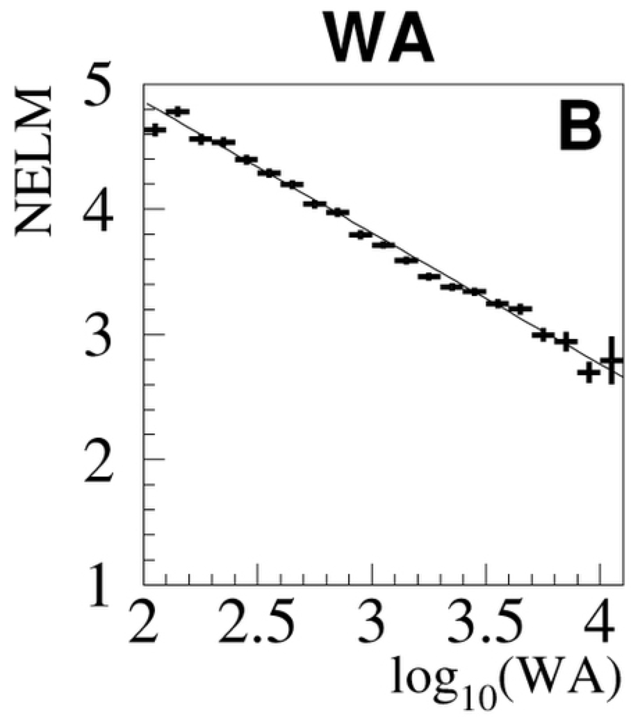 This plot shows the relationship between naked eye limiting magnitude found in the GLOBE at Night project and the luminance of the sky predicted by "The first world atlas of the artificial night sky brightness". It is a single panel from this image